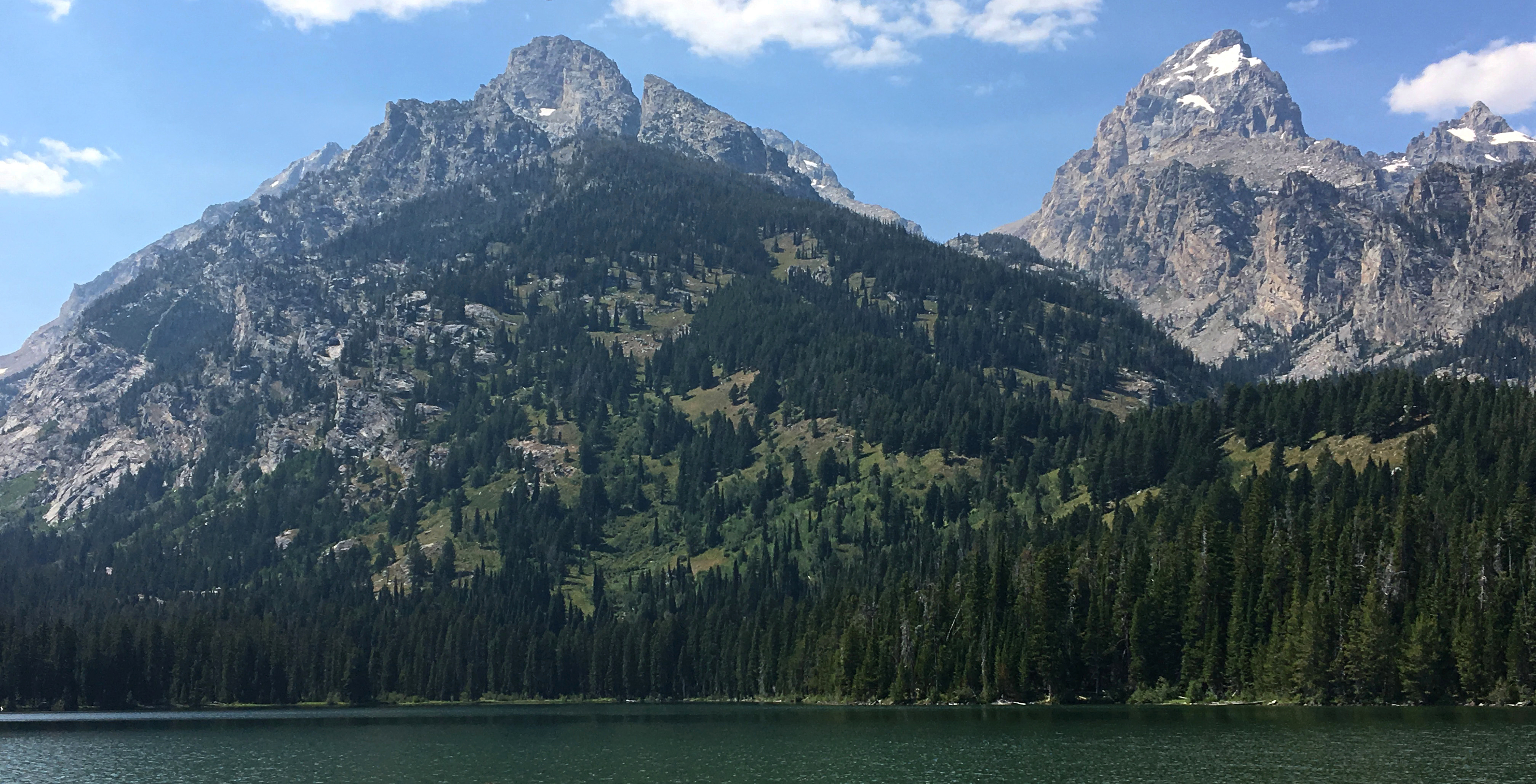 Nez Perce Peak (left) and Grand Teton seen from Taggert Lake